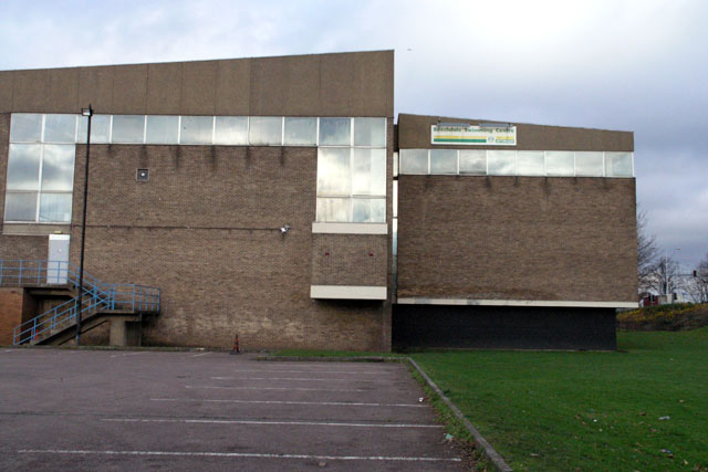 Beechdale Swimming Centre I'm not sure when this was built, but between 1965 and 1975 is pretty certain I'd say